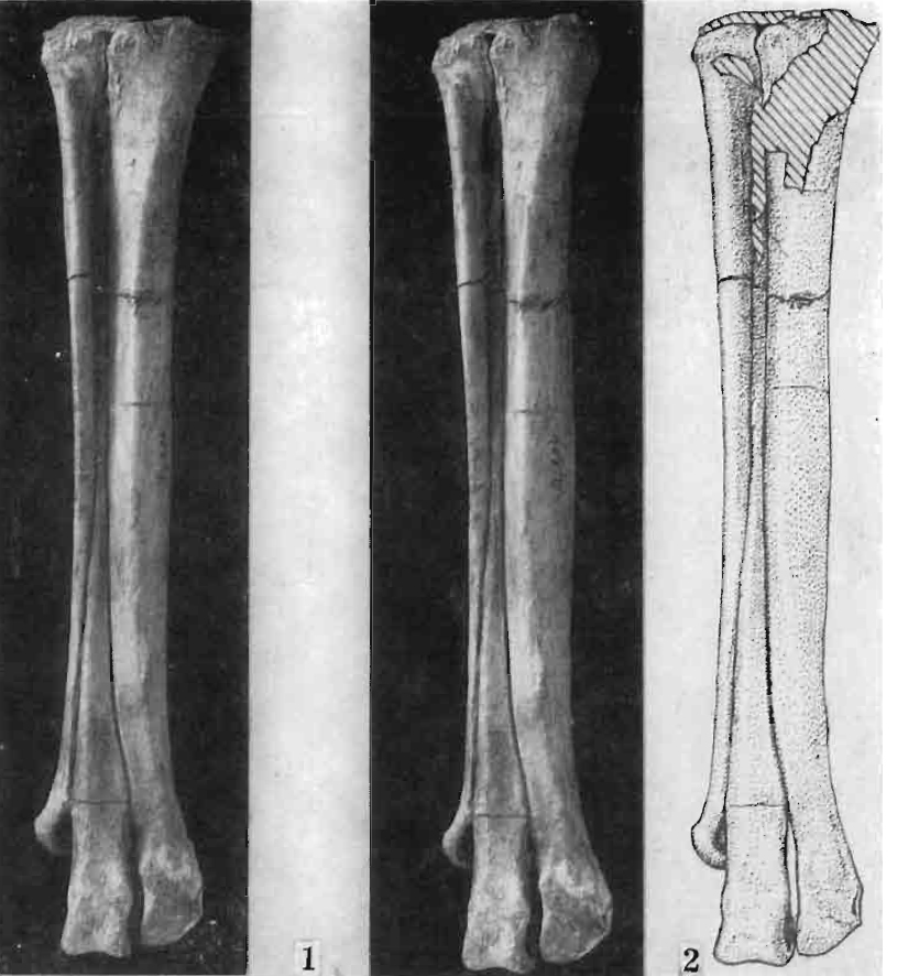 Tochisaurus nemegtensis gen. et sp. n. 1. Left metatarsus, anterior view; stereophotograph. PIN 551-224. 2. Drawing of the same metatarsus in anterior view; parts filled with plaster are marked.